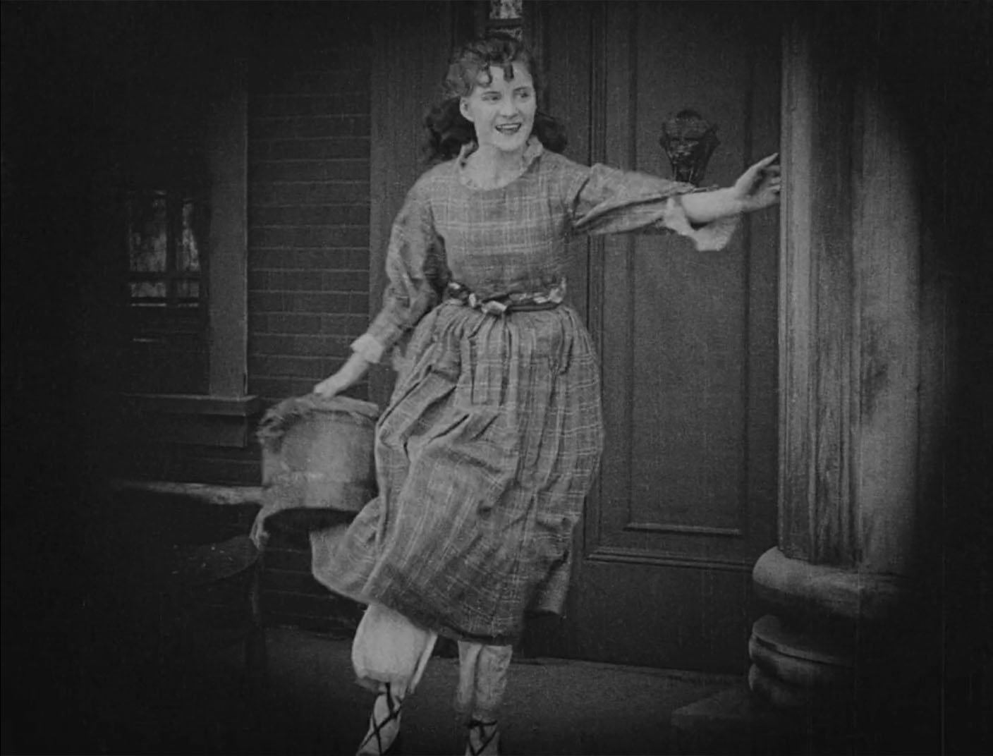 Scene from the movie Birth of a Nation. 1915.